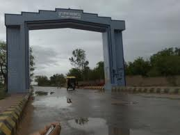 matloob